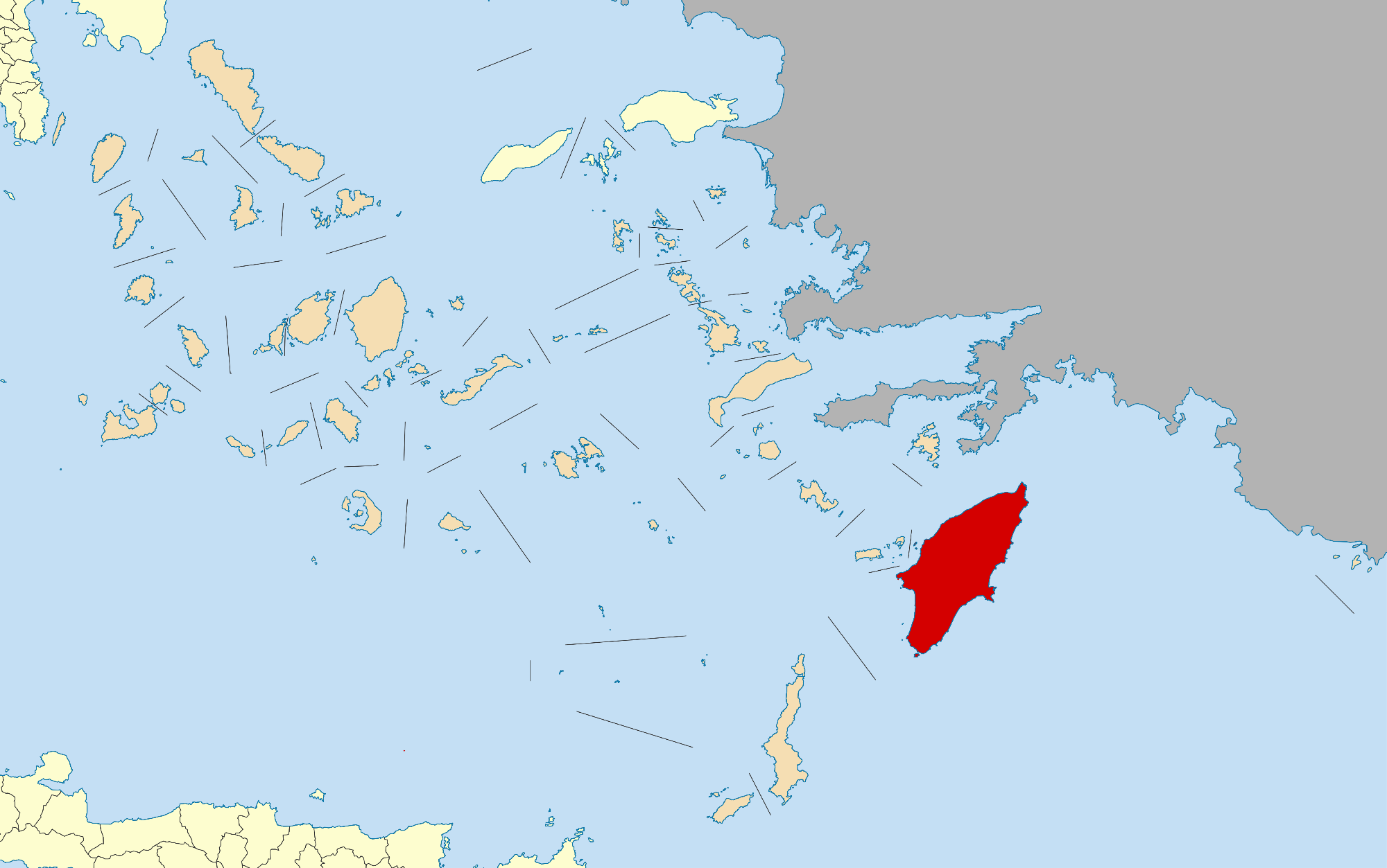 Locator map for Rhodes municipality in Greek region South Aegean (2011)